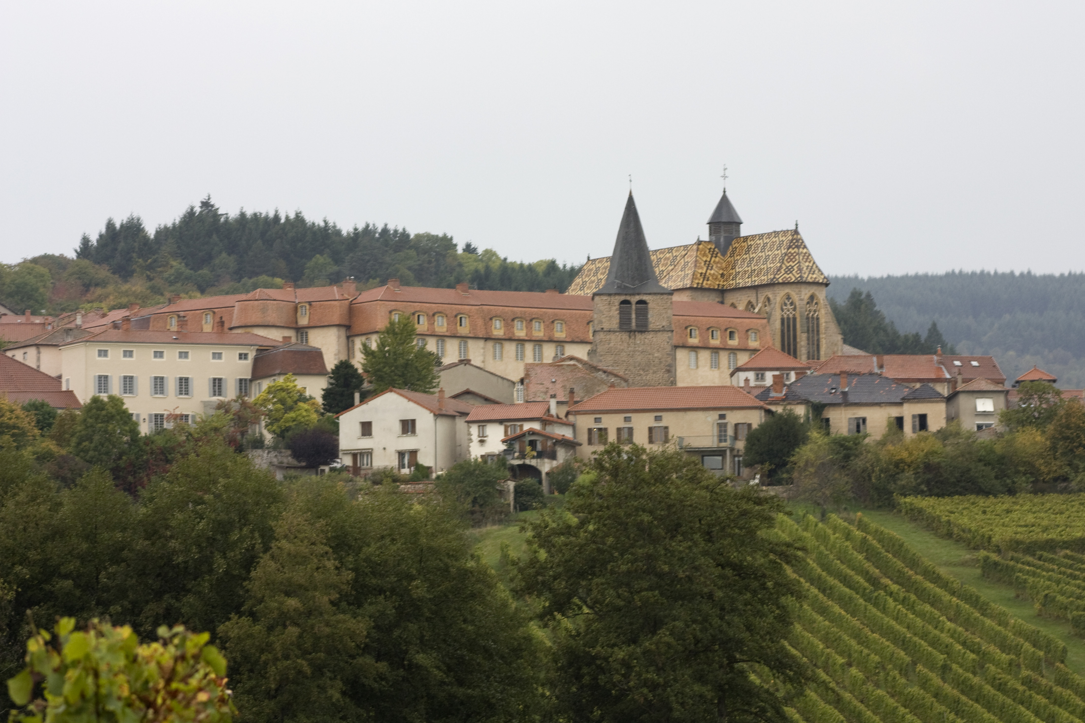 The village of Ambierle around its ancient priory.